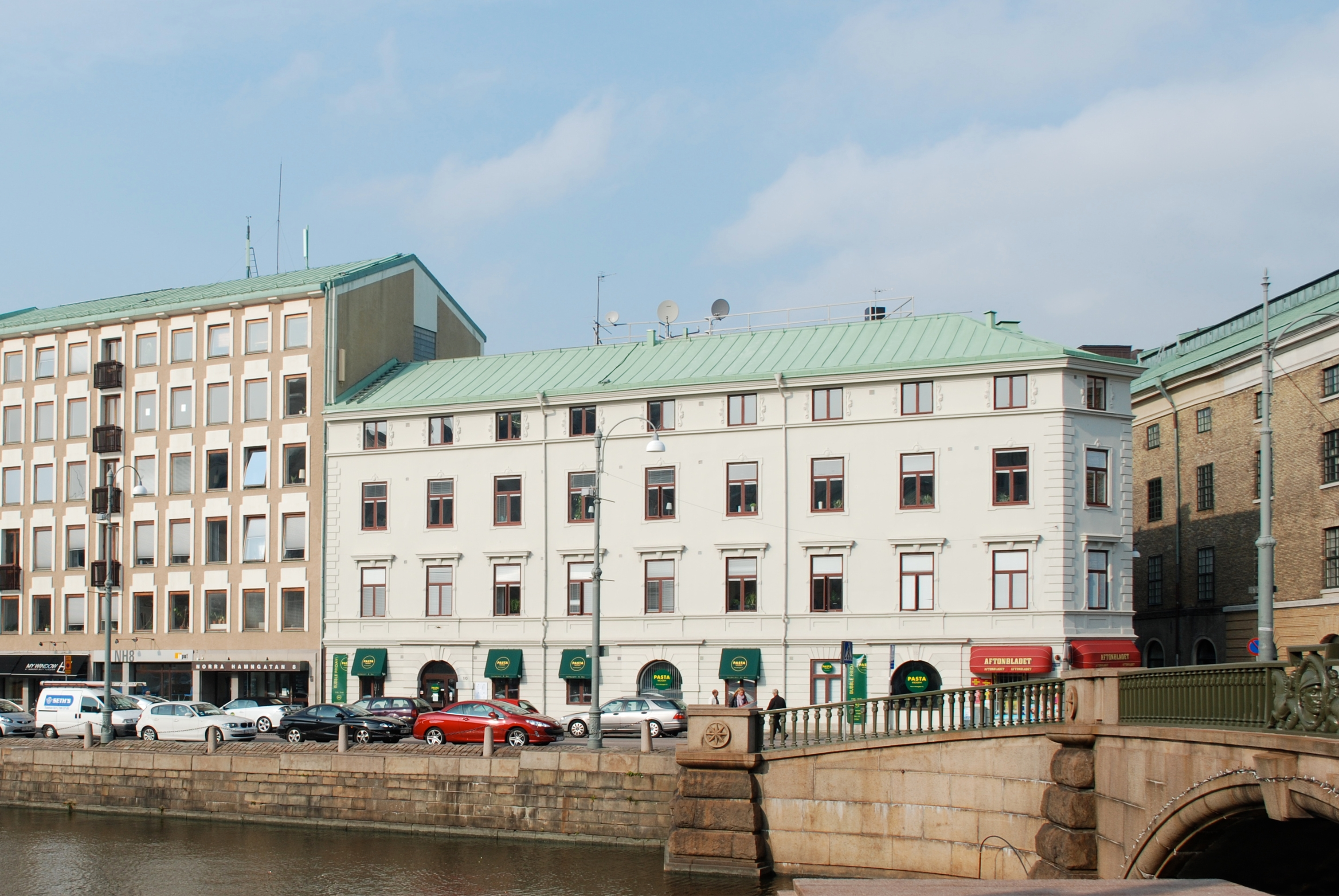 Norra Hamngatan Number 10